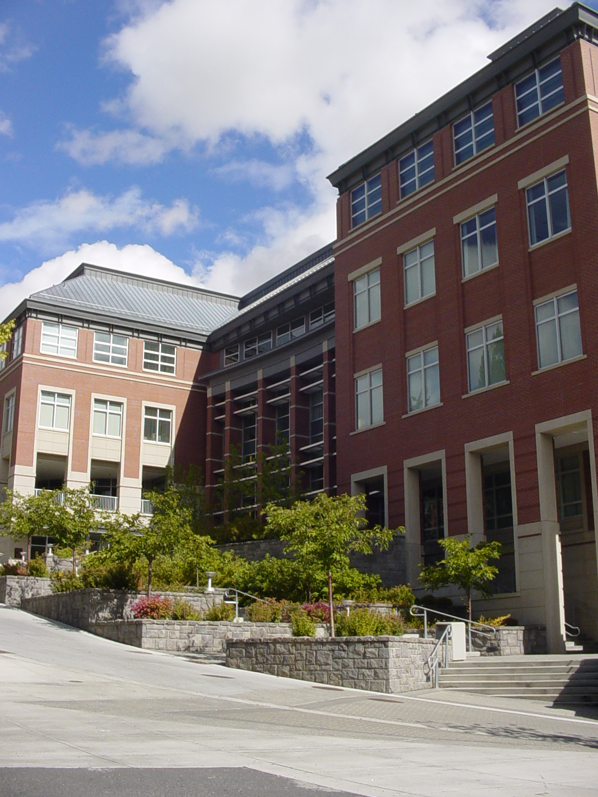 The WSU Center for Undergraduate Education (CUE) Building